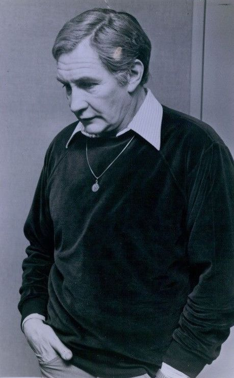 Press shots of Roy Dotrice from Mister Lincoln, 1981.